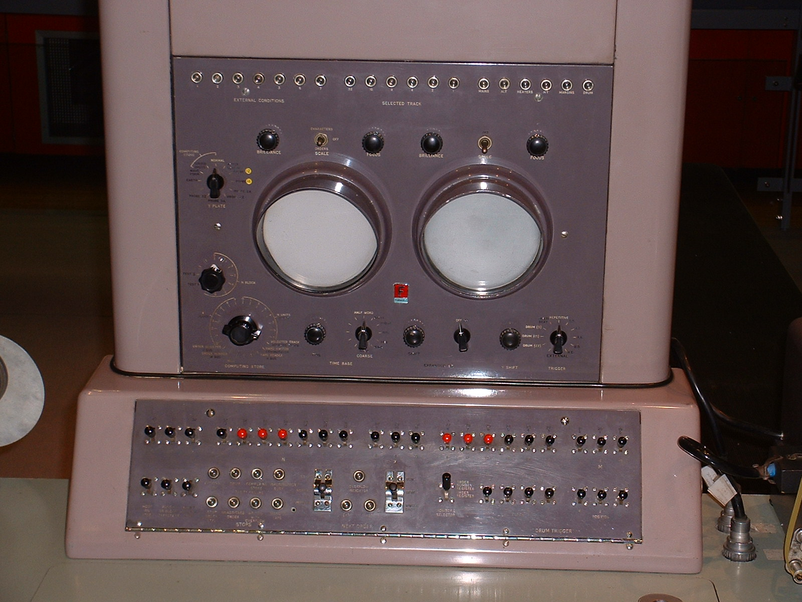 A picture of the Pegasus front console, showing the twin osciloscope displays, and switches. -- A photograph taken by the uploader, of the last surviving Pegasus standing in the Science Museum in London, UK.